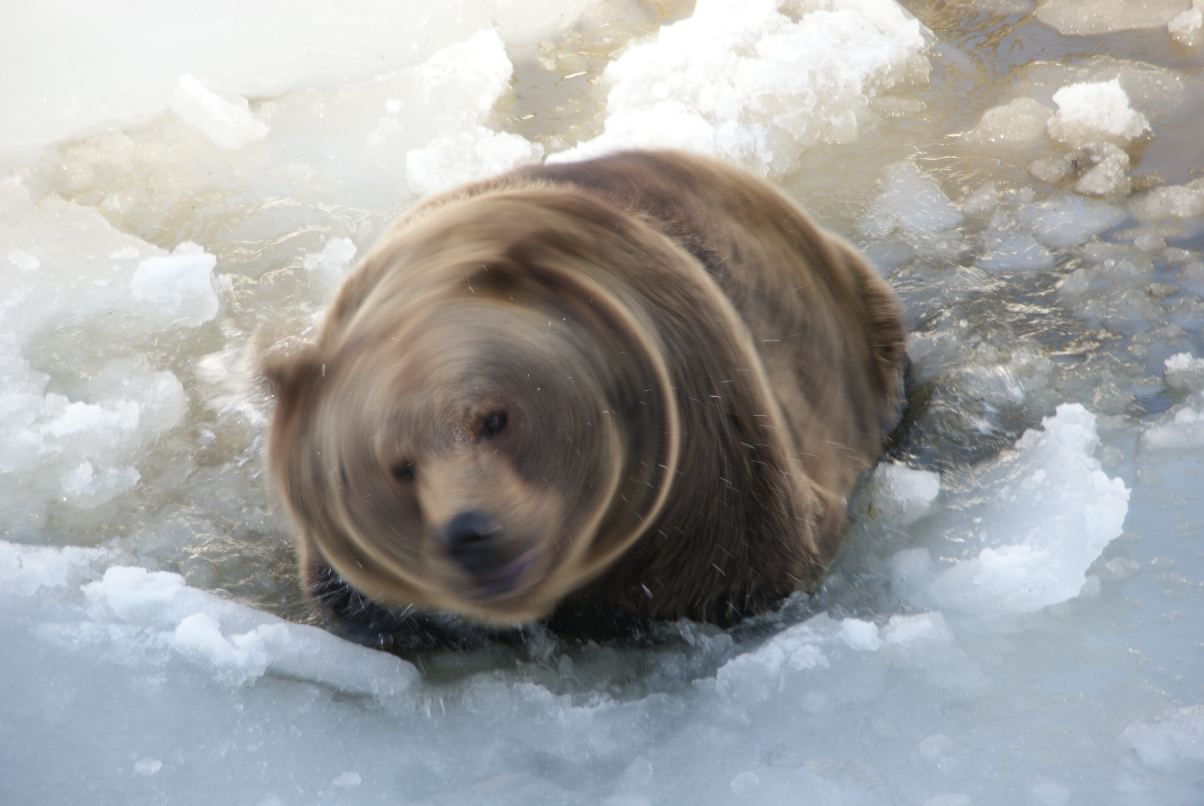 Brown Bear in an open-air enclosure at the National Park Bavarian Forest